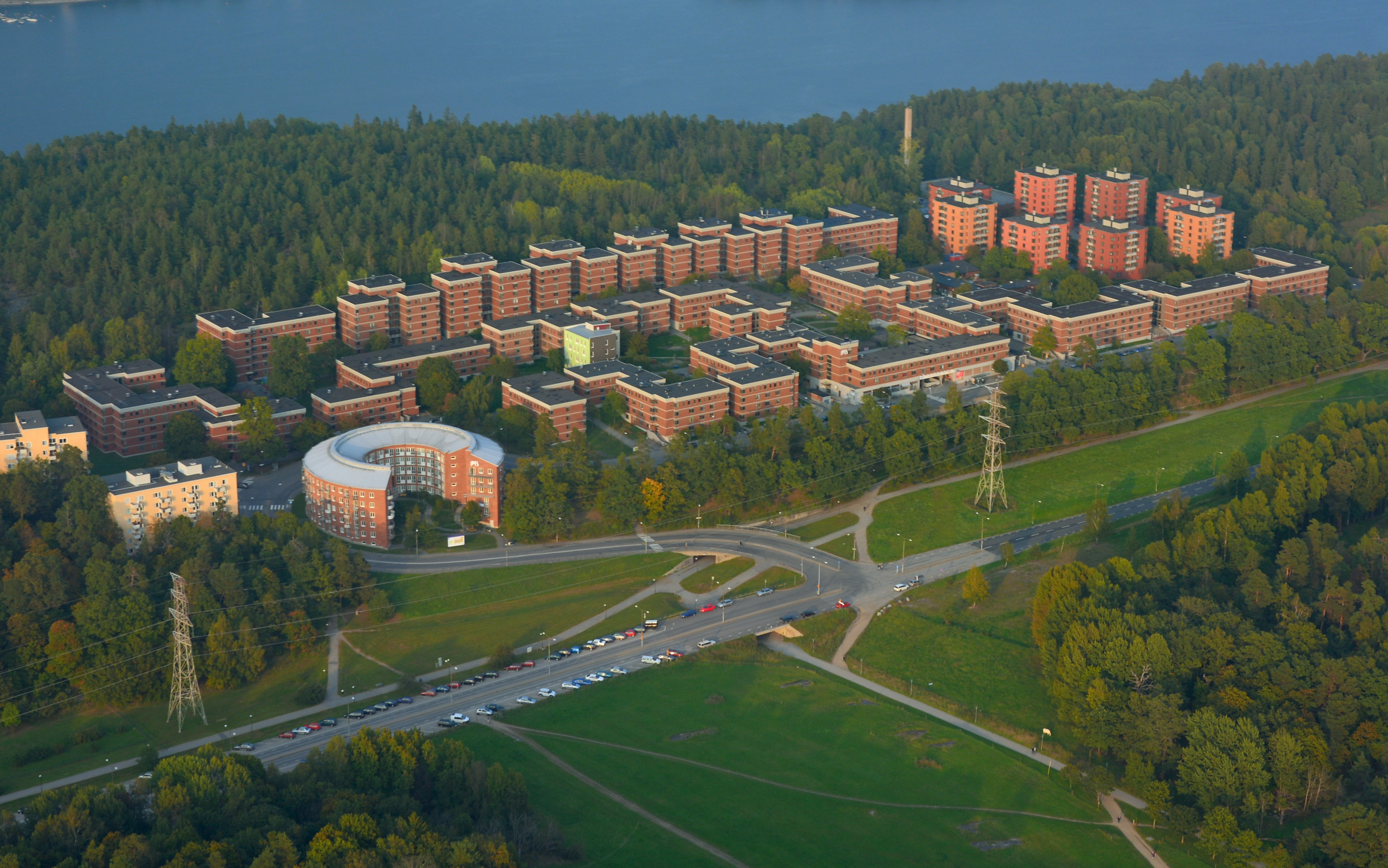 Lappkärrsberget in Stockholm, Sweden.